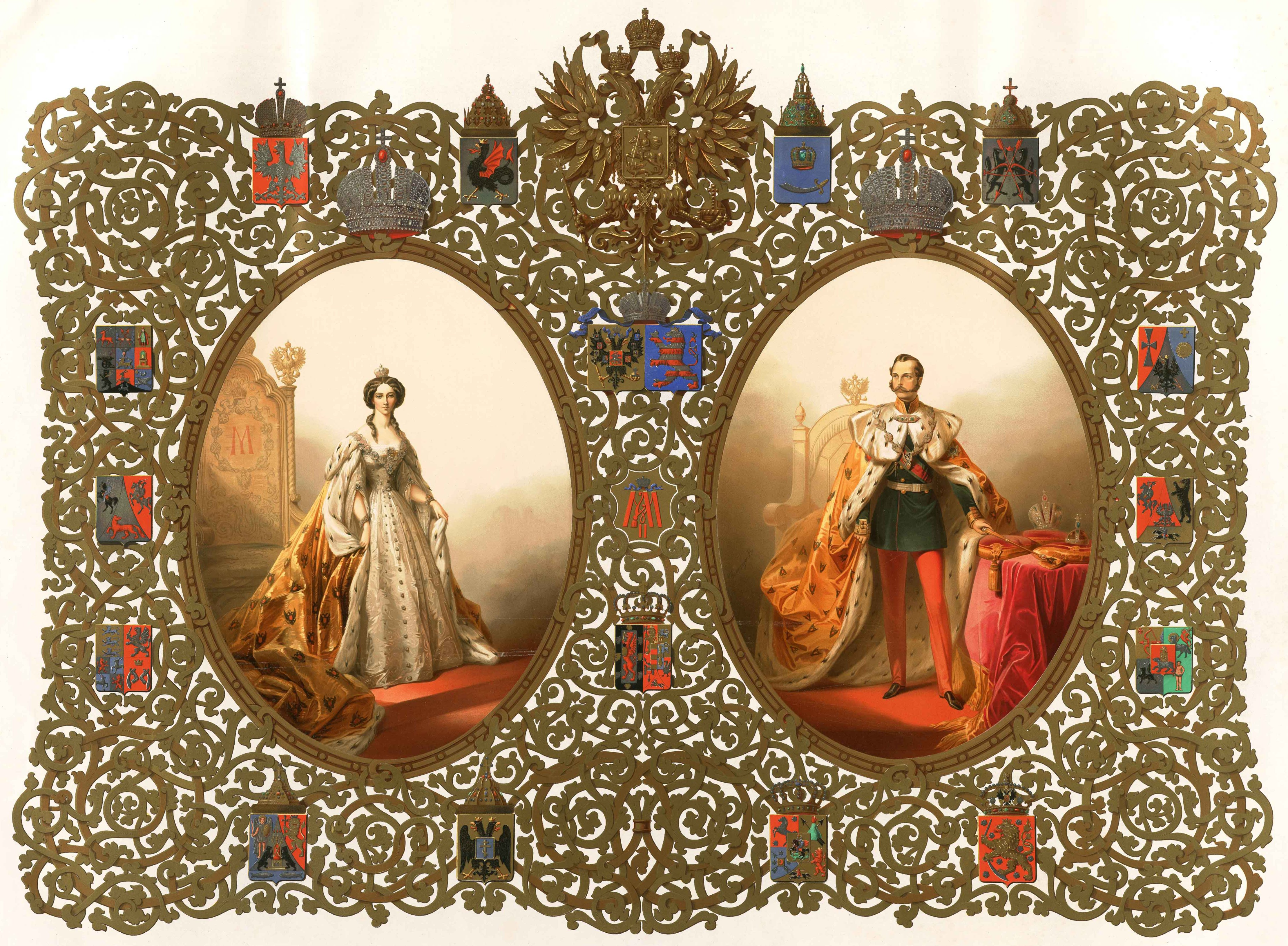 Coronation Portraits of Tsar and Tsarina